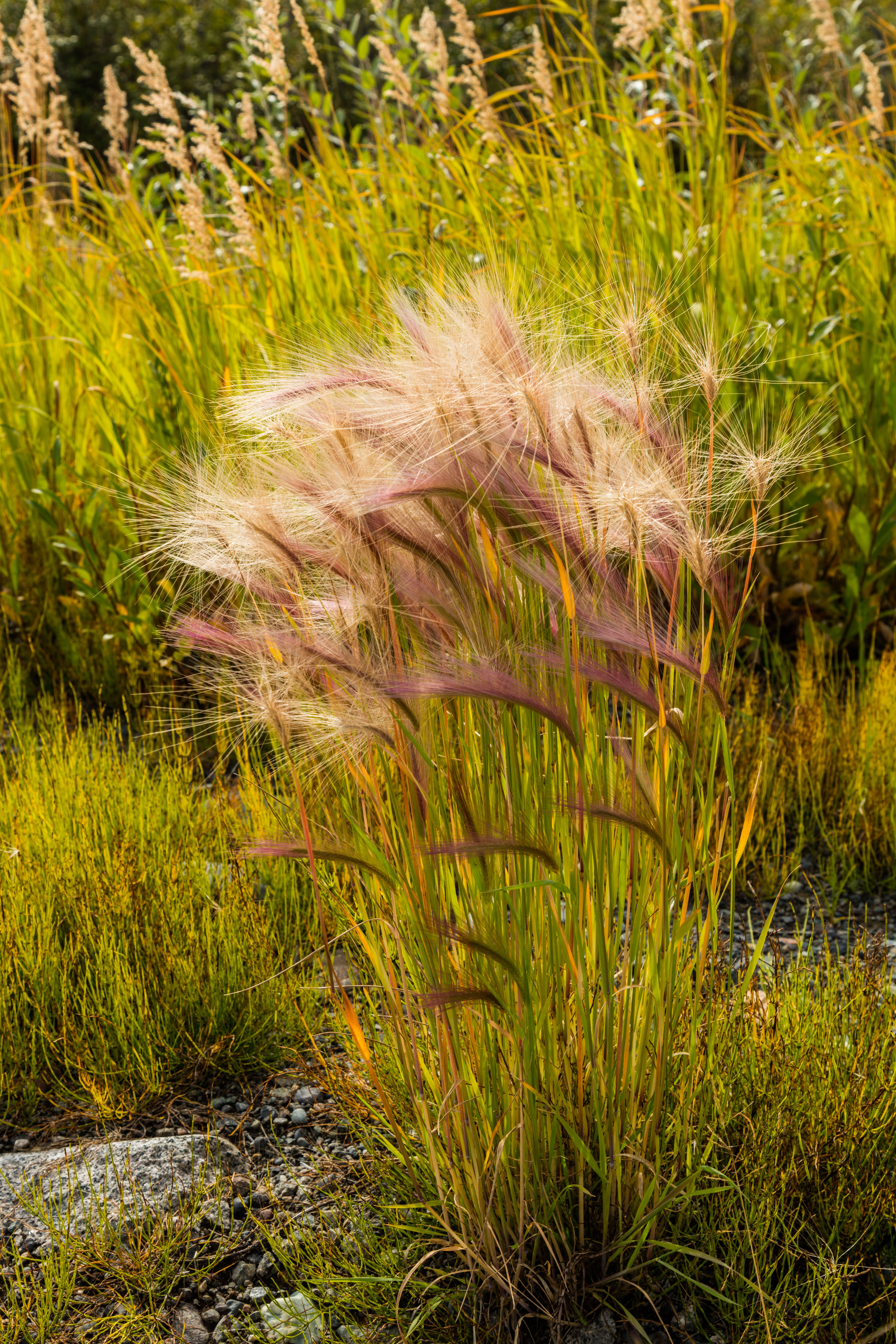 Hordeum jubatum, Tetlin National Wildlife Refuge, Alaska, United States